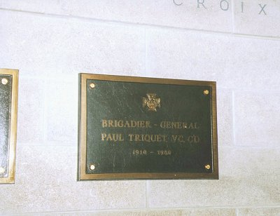 Memorial plaque for Victoria Cross recipient Paul Triquet, at Mount Royal Crematorium, Montreal, Quebec, Canada.